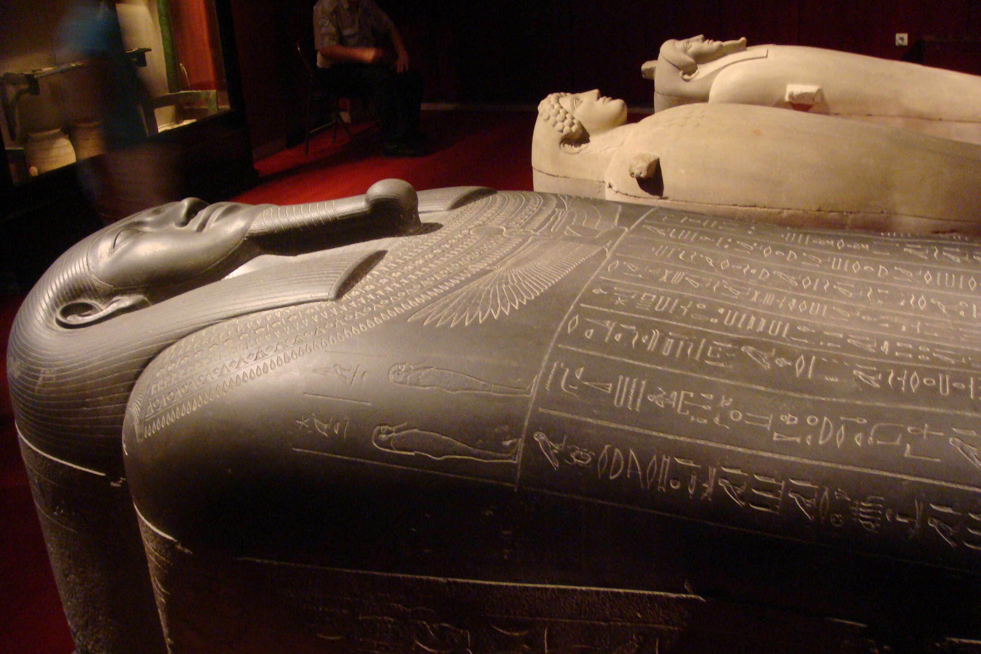 Sarcophagi in the Istanbul Archaeological Museum. Tabnit Sarcophagus (6C BC), an anthropoid (human-shaped) stone coffin that, according to the Egyptian hieroglyphs on the cover, once belonged to Peneptah, an Egyptian commander. Another inscription, in Phoenician alphabet, also states that Tabnit, King of Sidon was the succeeding possessor of the sarcophagus. [1]